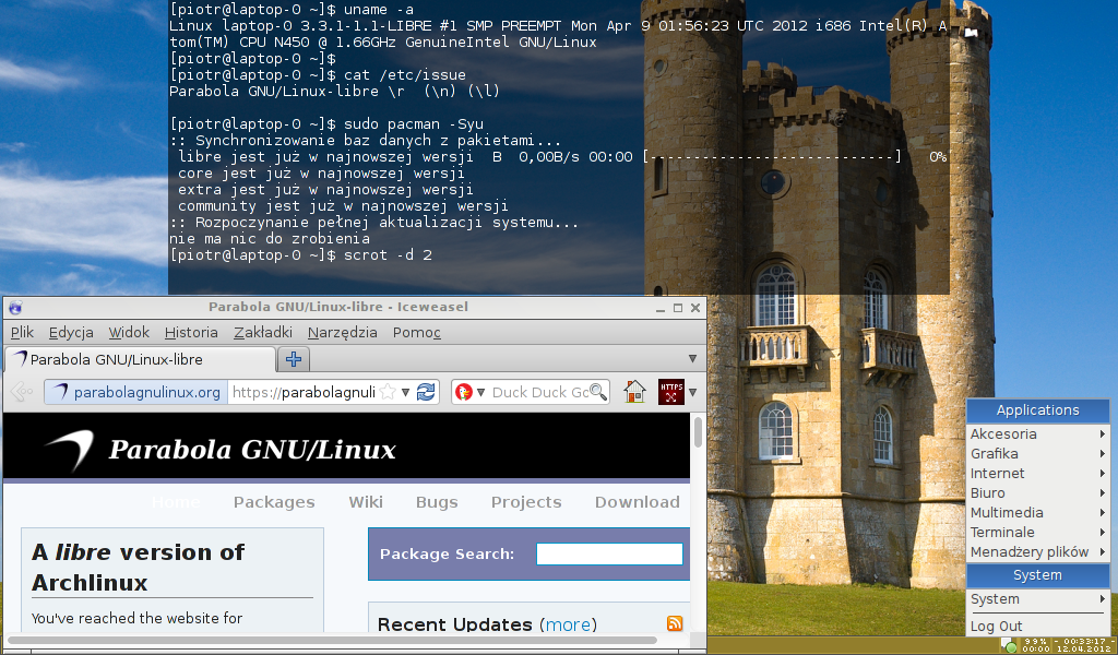 Example screenshot(shot with program scrot) of operating system Parabola GNU/Linux. There is window manager openbox, terminal tilda, taskbar tint2 and official website of Parabola in browser Icewesel. As wallpaper: POTY image In terminal we see libre version of Linux kernel, and libre repository when we try to upgrade system using pacman.